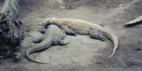 Komoda Dragons at Toronto Zoo. Commons:Category:Varanus komodoensis